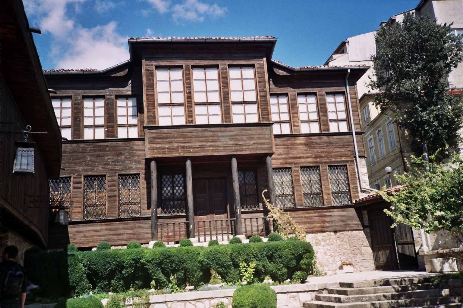 Museum of Ethnography, Varna, Bulgaria